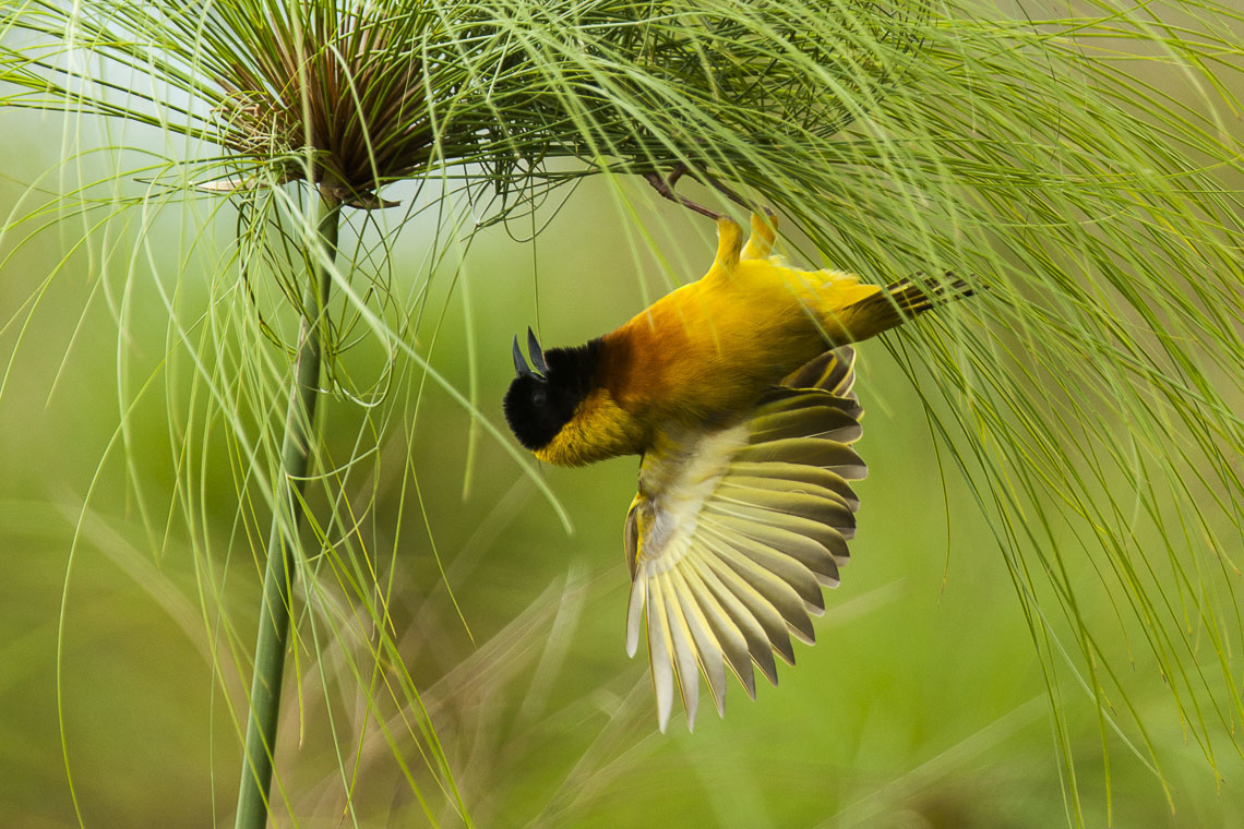 Black-headed Weaver - Uganda_MG_1449